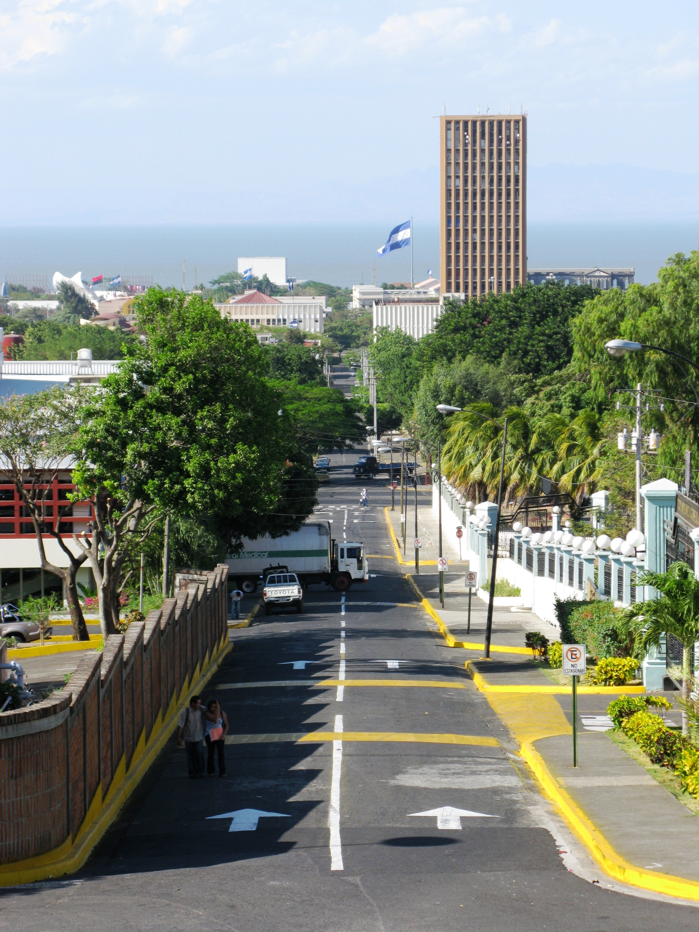 Roosevelt Avenue in Managua, Nicaragua